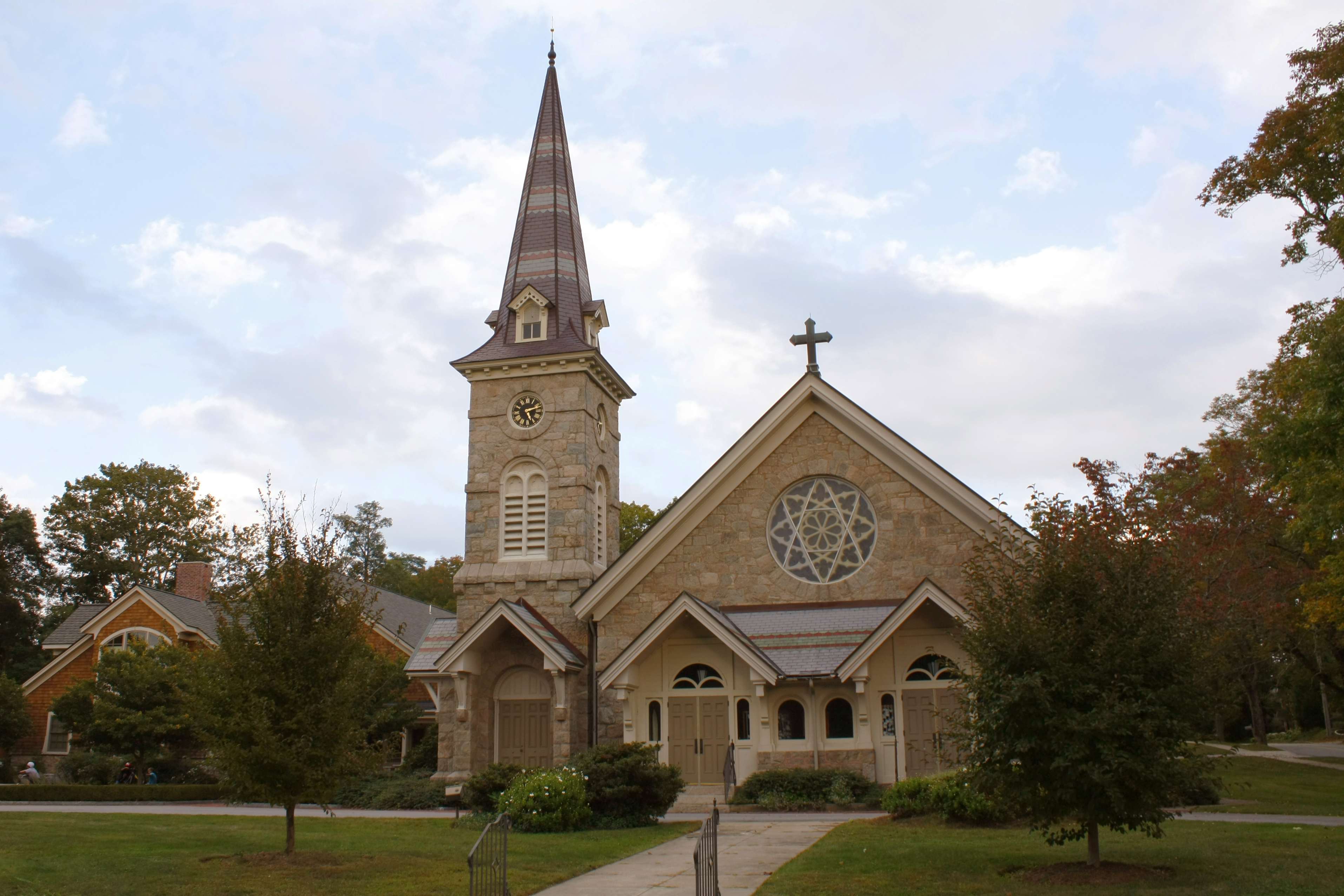 Peace Dale Historic District